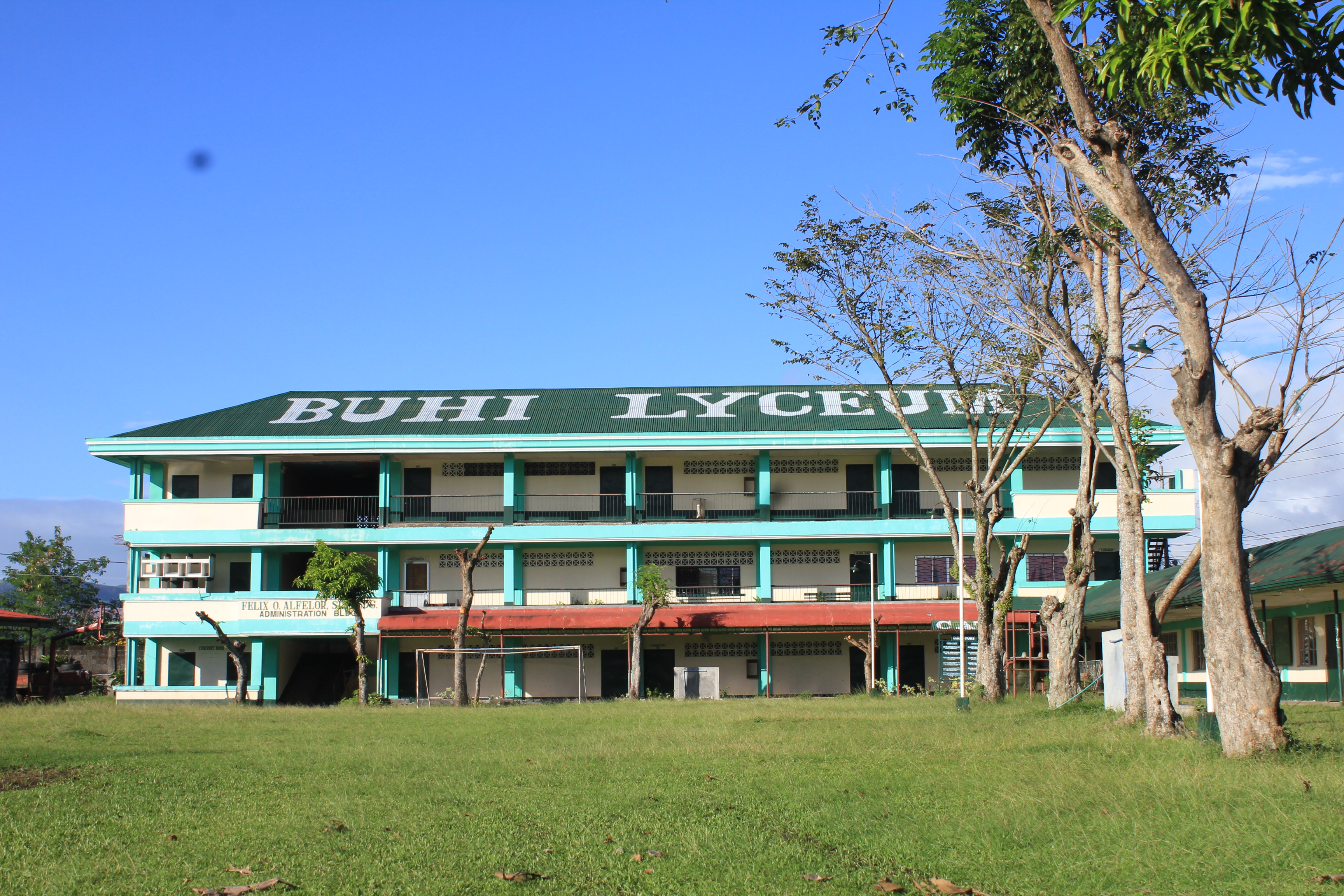 Buhi Lyceum is one of the known school in Buhi.